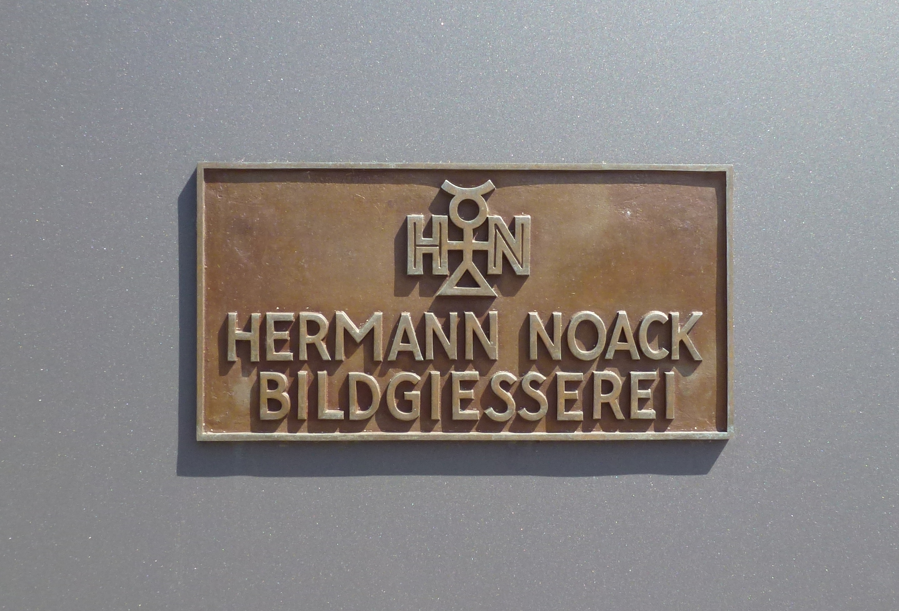 Hermann Noack Bildgießerei name plate